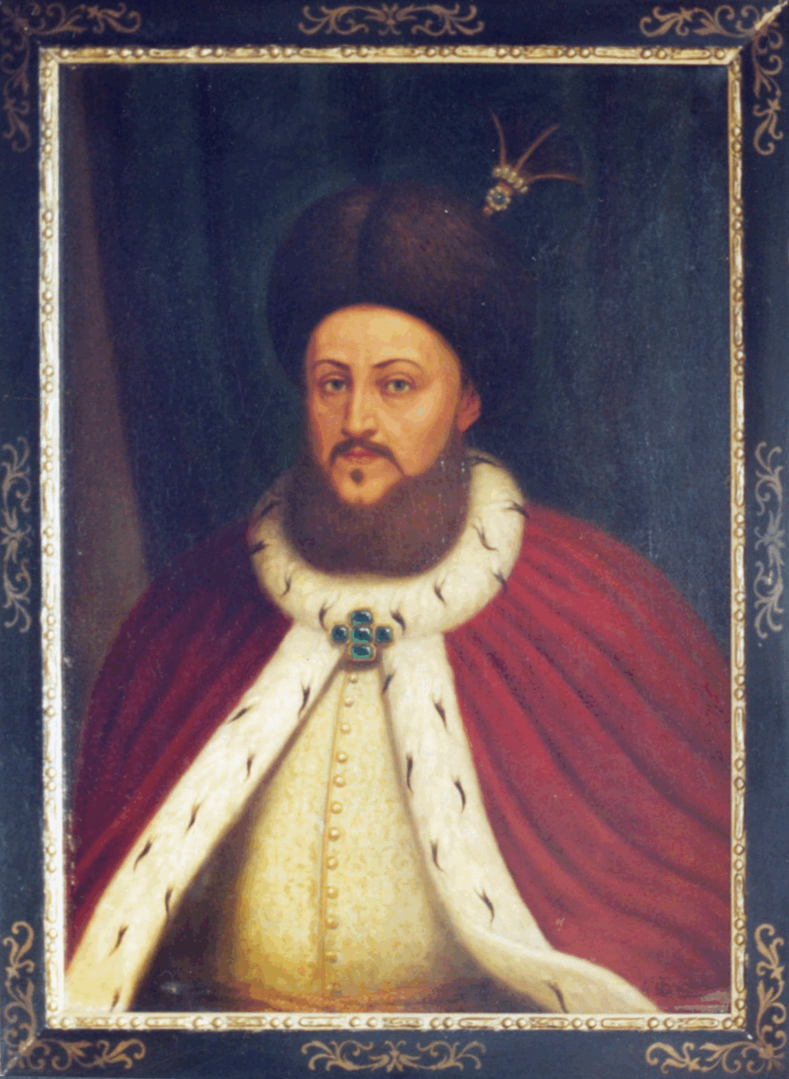 Nicolae Mavrocordat